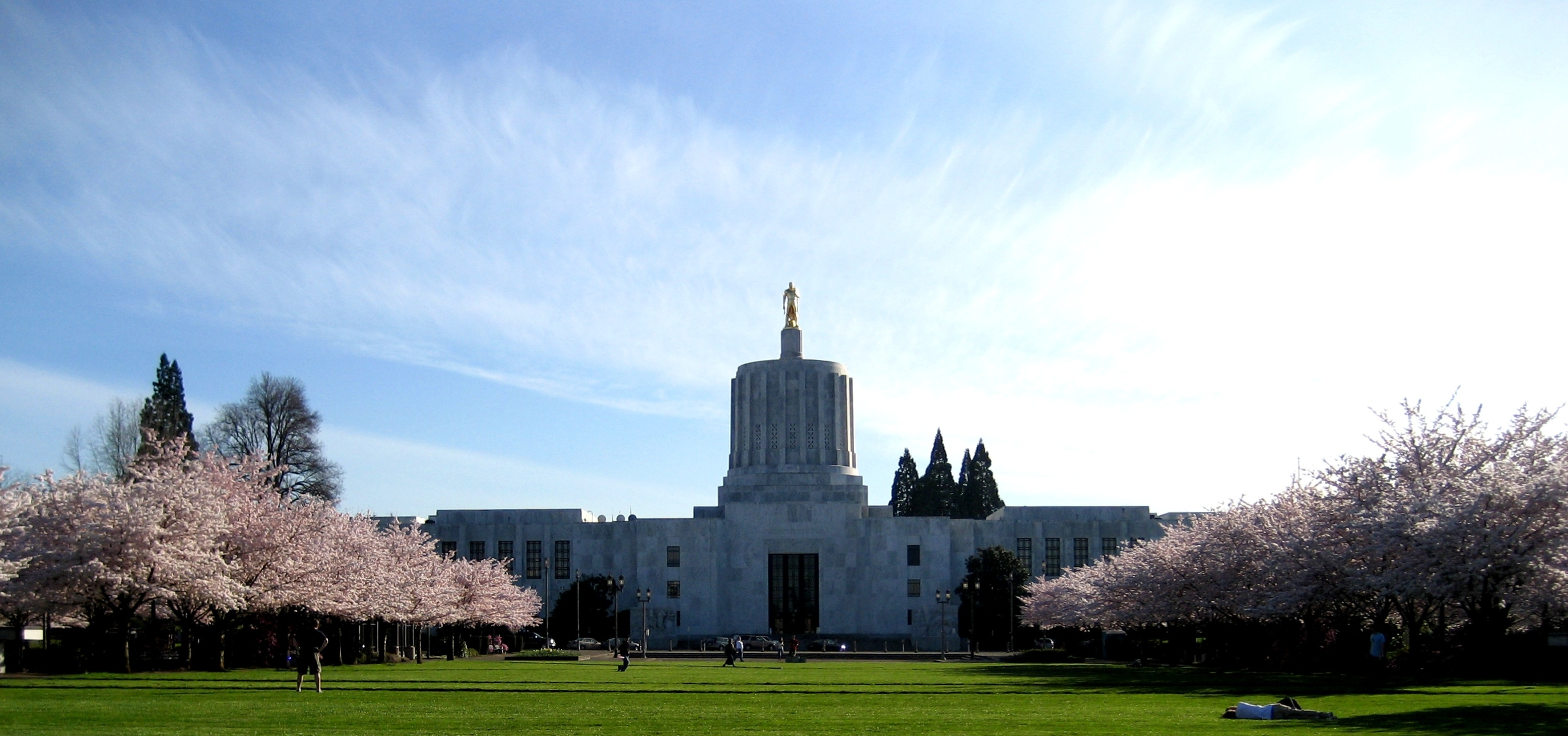 Oregon State Capitol Building in Salem